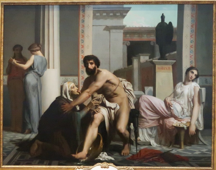 Ulysses recognized by his nurse on his return from Troy. William Bouguerau (La Rochelle 1825- id. 1905) Oil on canvas, 1848. Gift of the author in 1849. Museum of Fine Arts of La Rochelle.